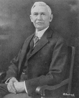 Emerson Harrington, former Governor of Maryland.